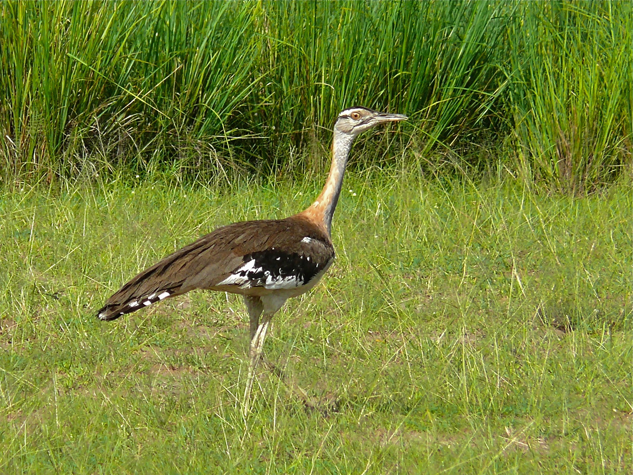 Murchison's Falls NP, UGANDA